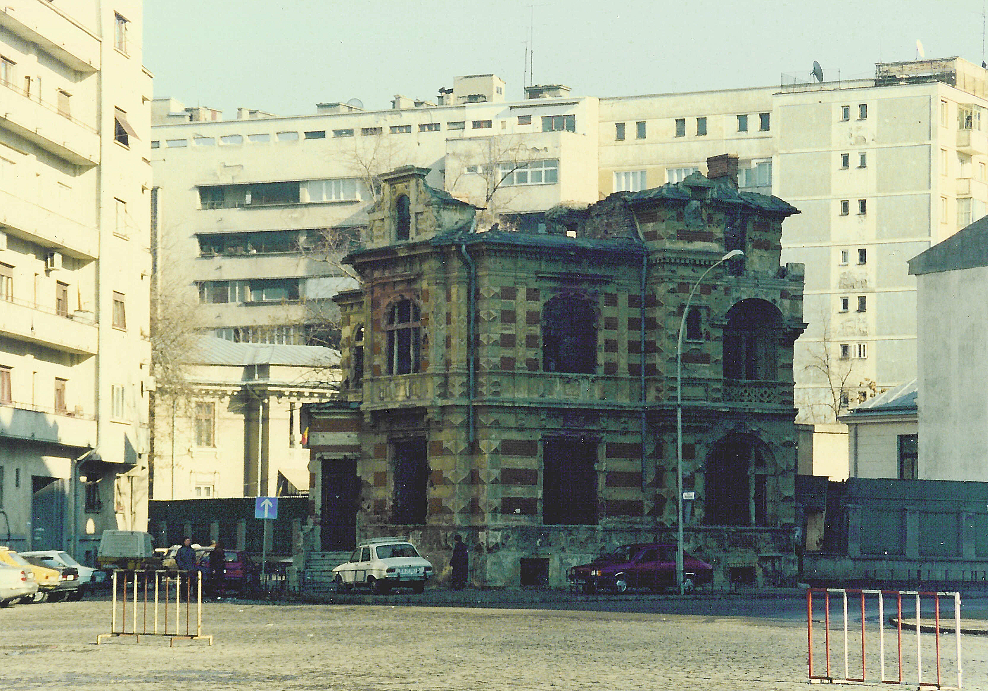 Building on Revolution Square, Bucharest, Romania gutted in the 1989 revolution. This building was later converted into the headquarters of the Romanian Architects' Association (Uniunea Arhitectilor din România).